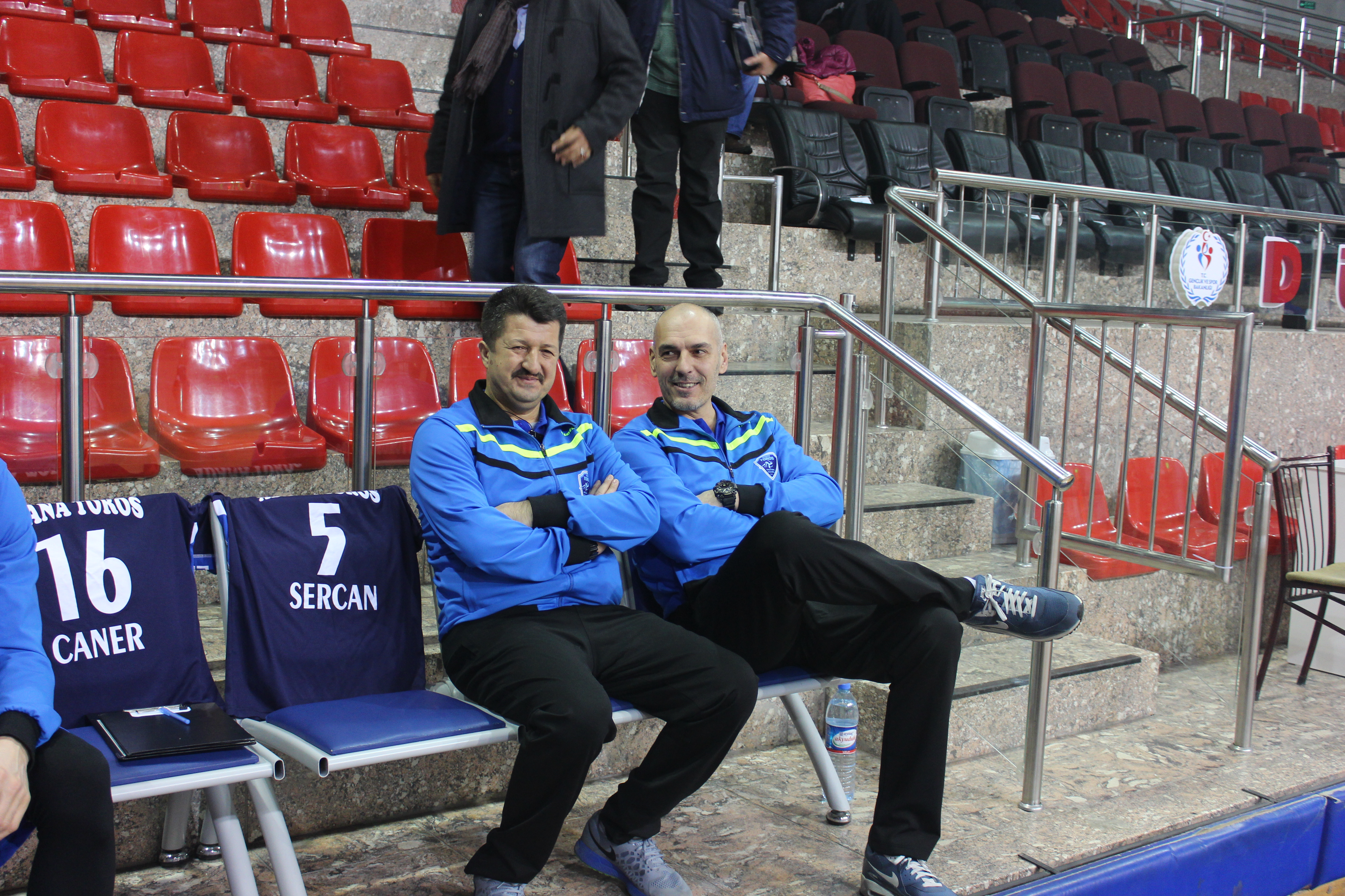 Coaches